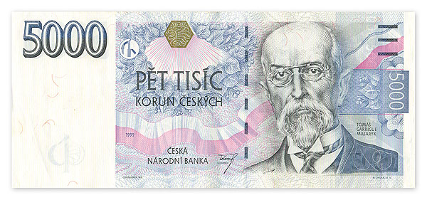 5 000 czk note 1999